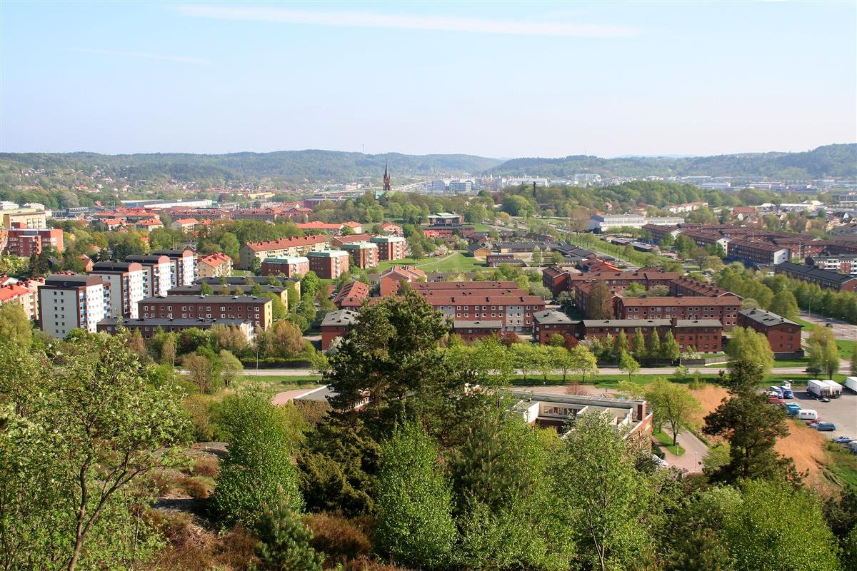 Mölndal sight from Safjället